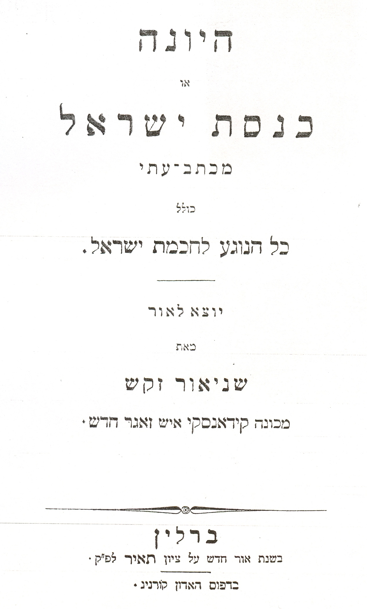 "Ha-Yona", a Hebrew periodical by Hebrew scholar Senior Sachs "היונה" ,he:שניאור זק"ש